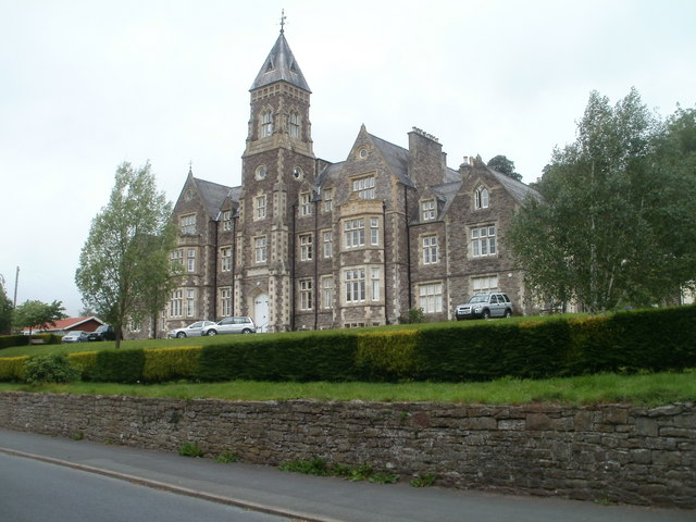 Camdem Court, Camdem Road, Brecon, Wales. Built in 1869 as Brecon Congregational Memorial College, which closed in 1959. The building is now used as sheltered housing.